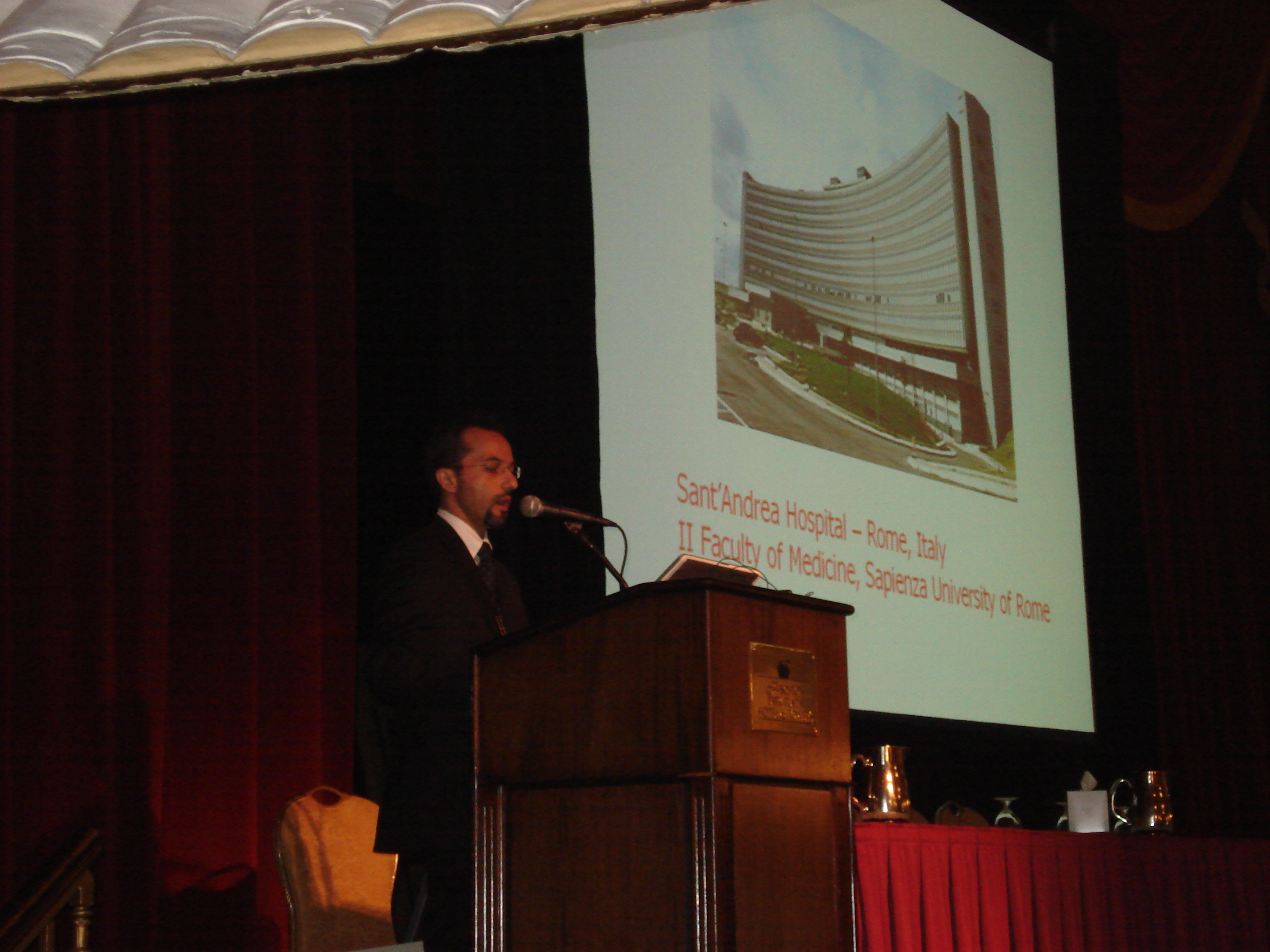 Maurizio Pompili, M.D., was the Recipient of the American Association of Suicidology’s 2008 Shneidman Award. 'I was amazed and thrilled to learn that my intensive efforts in suicide research were going to be recognized with the American Association of Suicidology’s 2008 Shneidman Award. This award is presented to a person under 40 years of age, or a person who is not more than 10 years past the highest degree earned, who has made outstanding early career contributions to Suicidology. I was introduced by the Executive Director of the American Association of Suicidology Dr. Alan L. Berman and my lecture at the Annual Conference of the American Association of Suicidology held this year in Boston was entitled “Shneidman’s suicidology: Above and beyond research priorities”.' Photo taken at Boston Park Plaza Hotel, 50 Park Plaza, Boston, MA, United States.